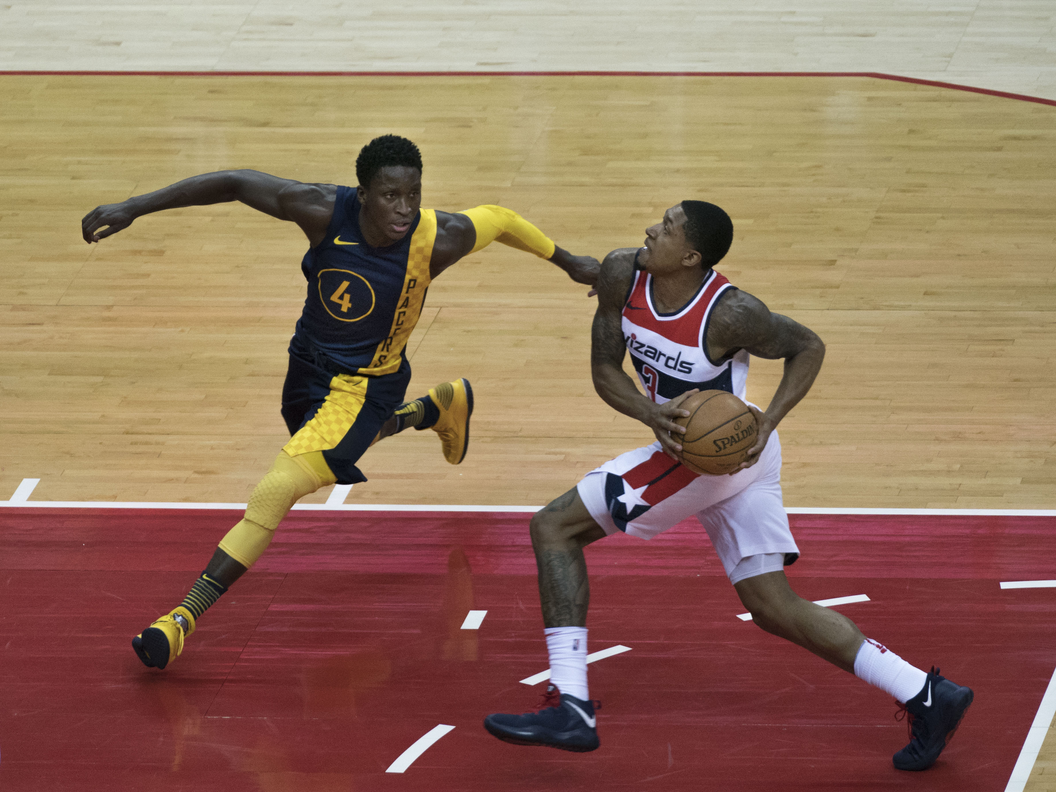 Pacers at Wizards 3/4/18